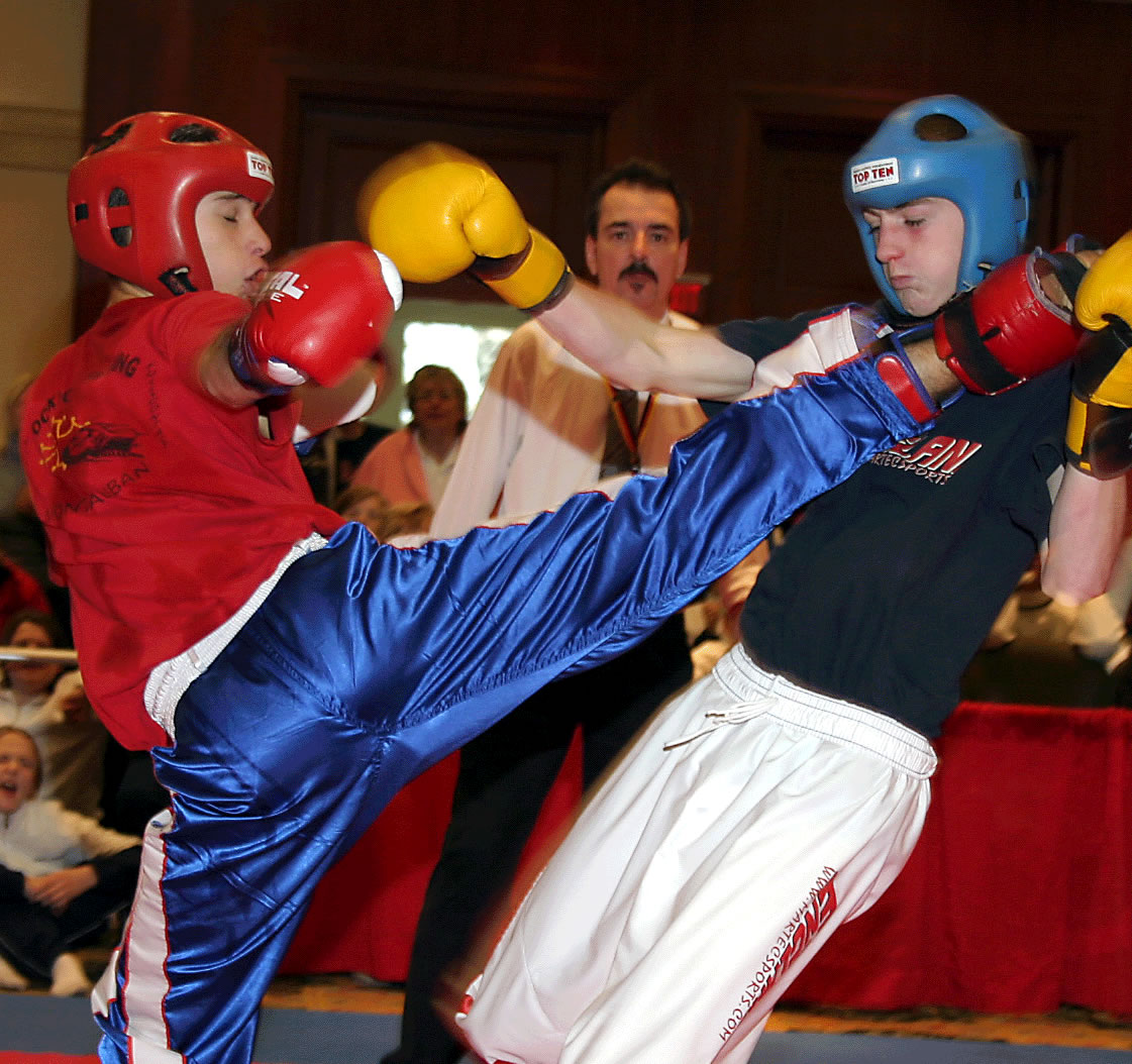 Hight-kick in medium-contact